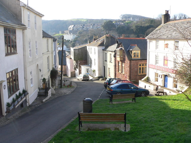 The Green Kingsand The Green at Kingsand with the Rising Sun Inn on the right and Cawsand Fort in the distance